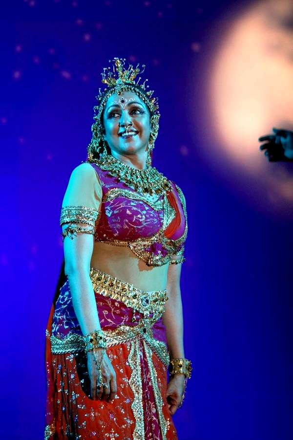 Bollywood actress Hema Malini performing